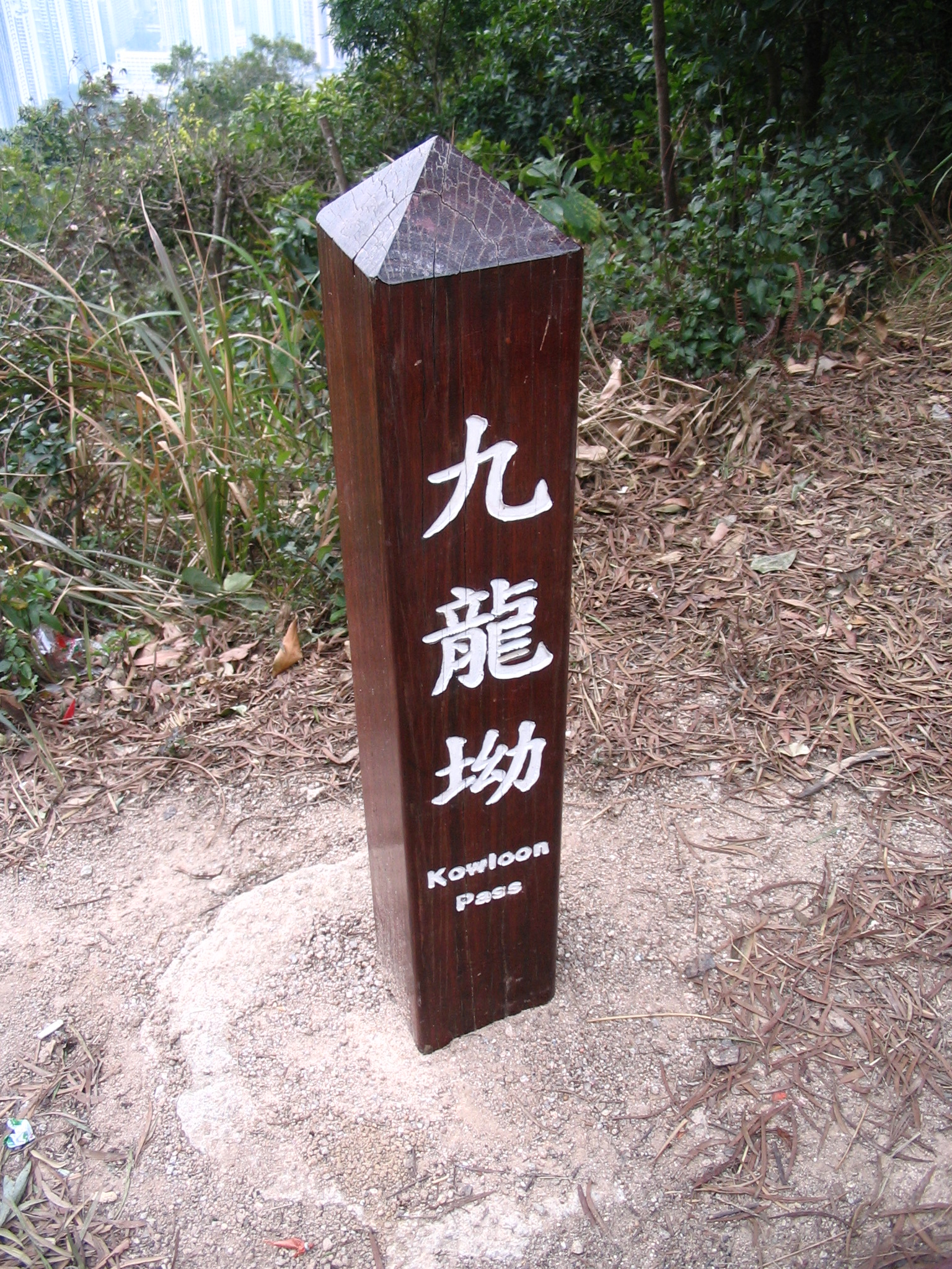 Photo of Kowloon Pass